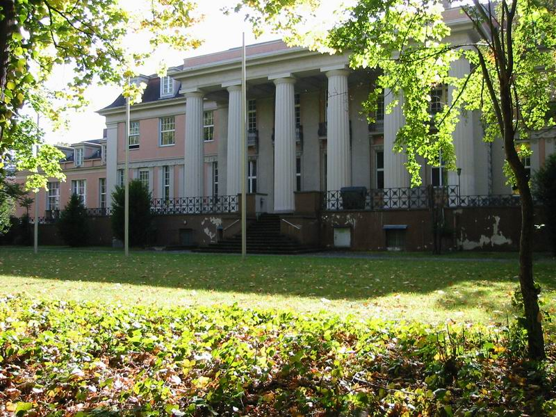 Deutsches Musikarchiv in Berlin-Lichterfelde